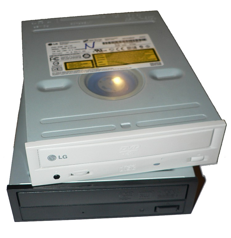 hardware optical drive